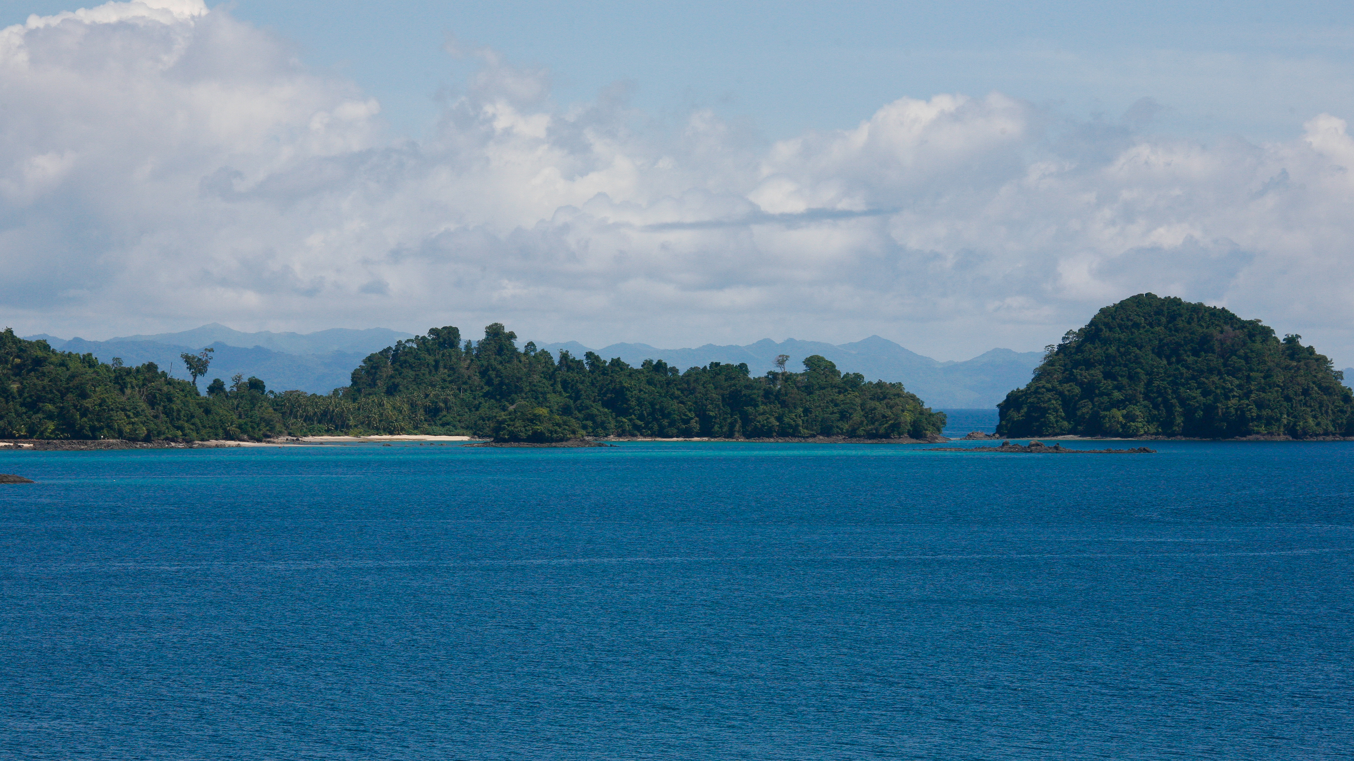 Coiba separated from continental Panama about 12,000 to 18,000 years ago when sea levels rose. Plants and animals on the new island became isolated from mainland populations and over the millennia most animals have diverged in appearance and behavior from their mainland counterparts. The island is home to many endemic subspecies, including the Coiba Island Howler monkey, the Coiba Agouti and the Coiba Spinetail.